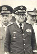 Military junta of 1969, Aurélio Lira, Márcio Melo and Augusto Rademaker.